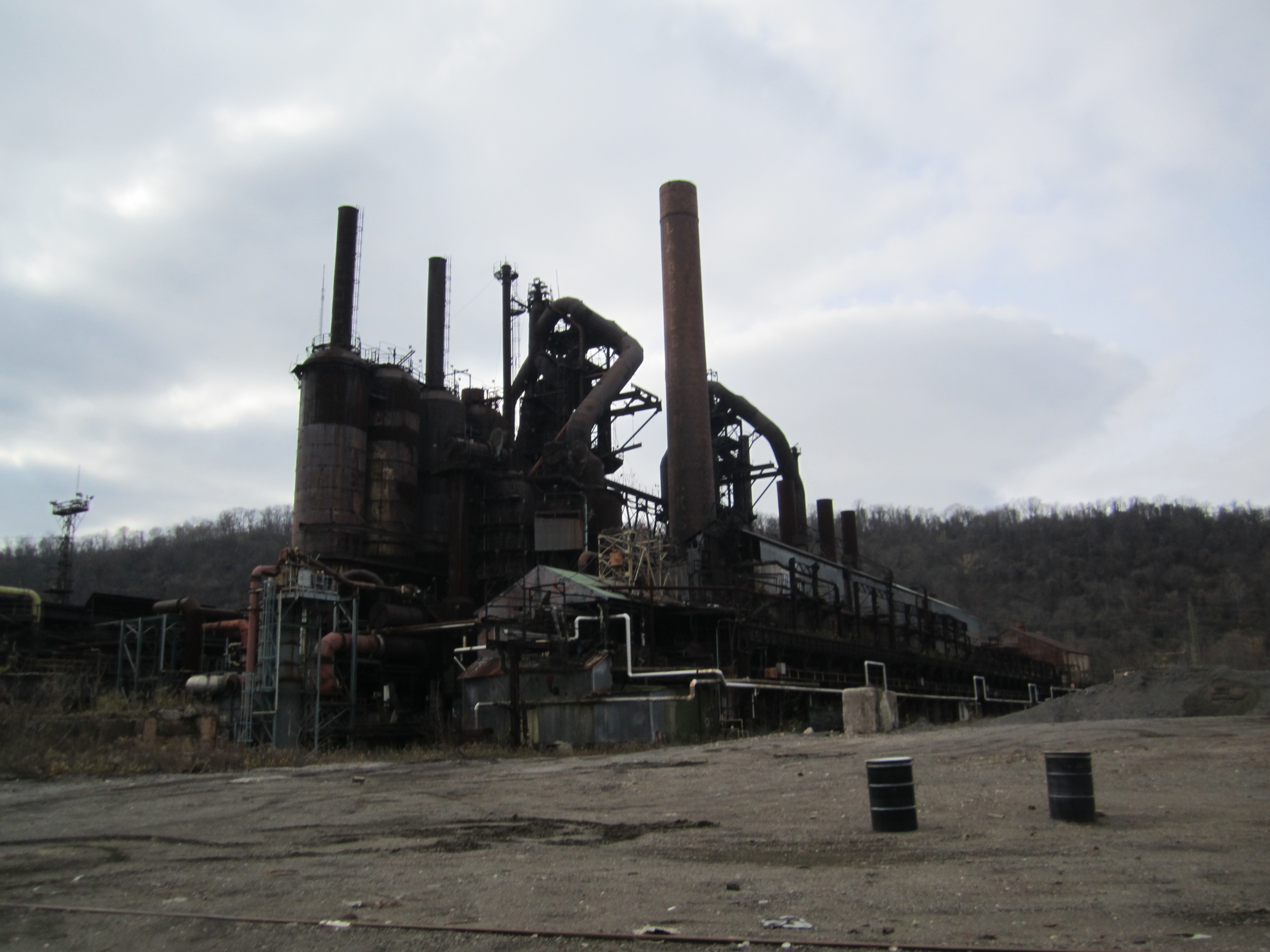 Former RG Steel Property, in Steubenville, Ohio, United States.